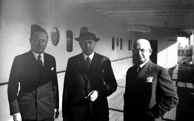 Polish treasure vice-minister Adam Koc on ship m/s "Pilsudski".